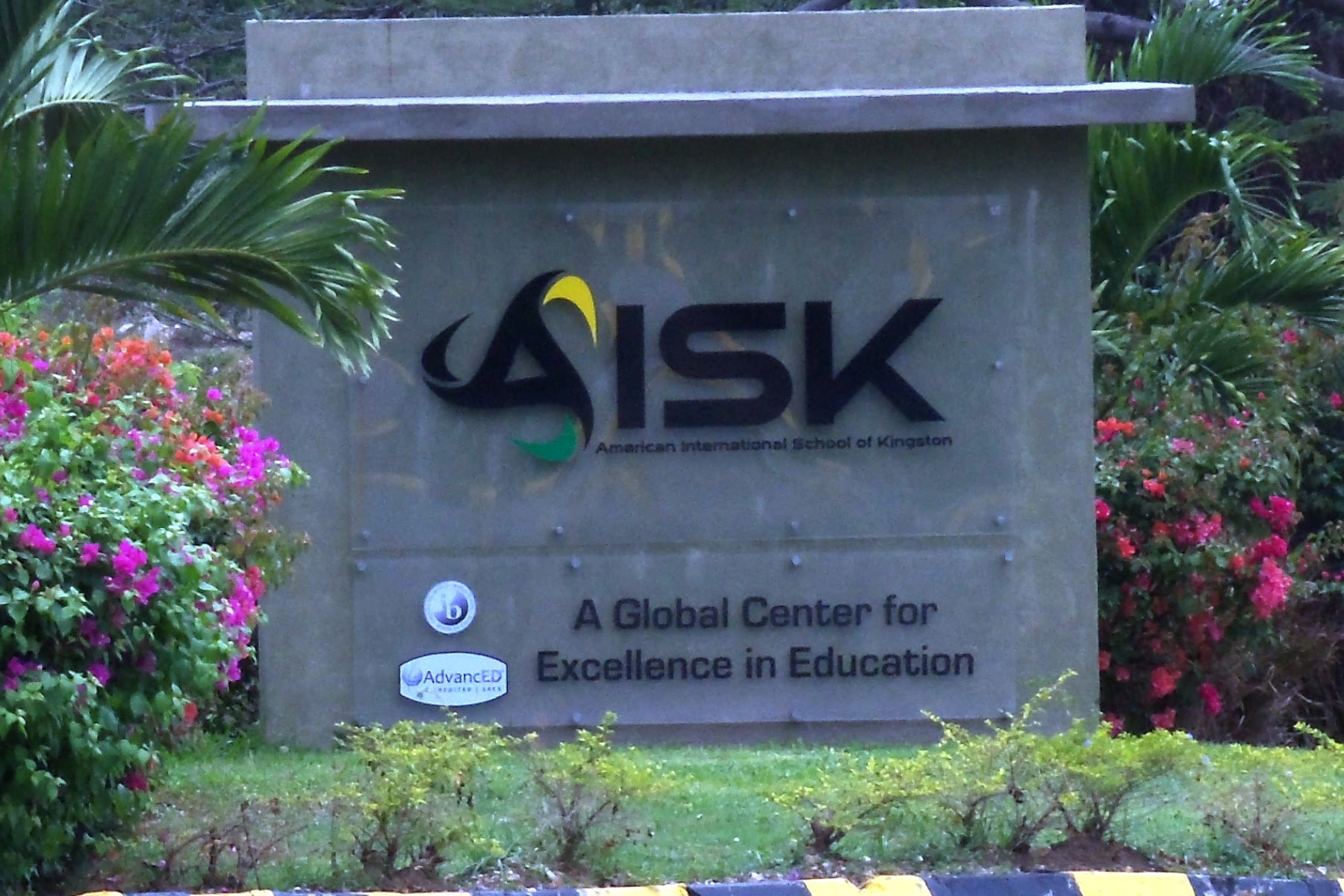 Sign at the front entrance of the American International School of Kingston